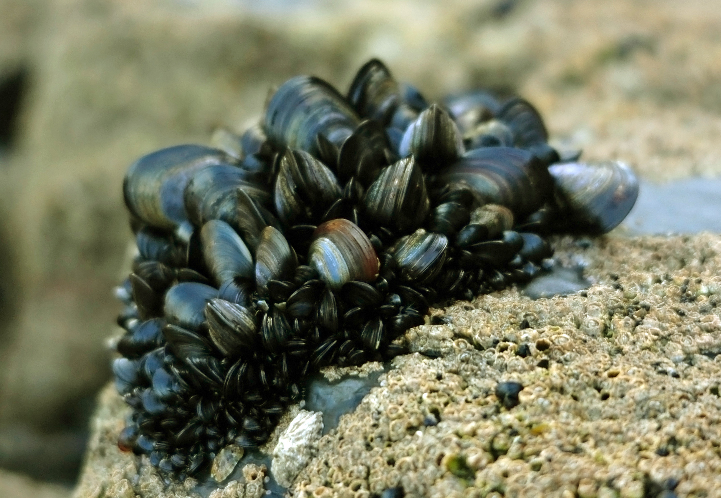 A clump of blue mussels, Mytilus edulis, on a rock in Cornwall, UK.